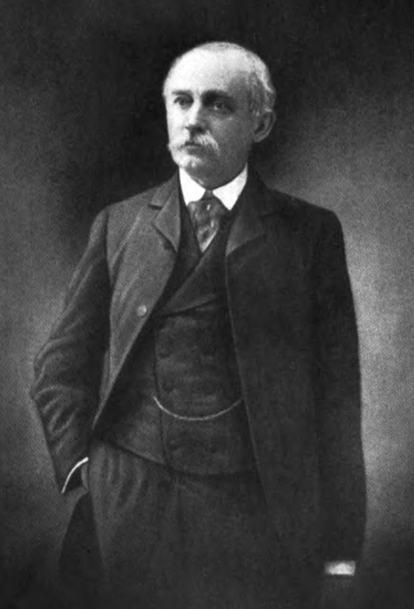 Picture of Marshal Ayres, Jr.